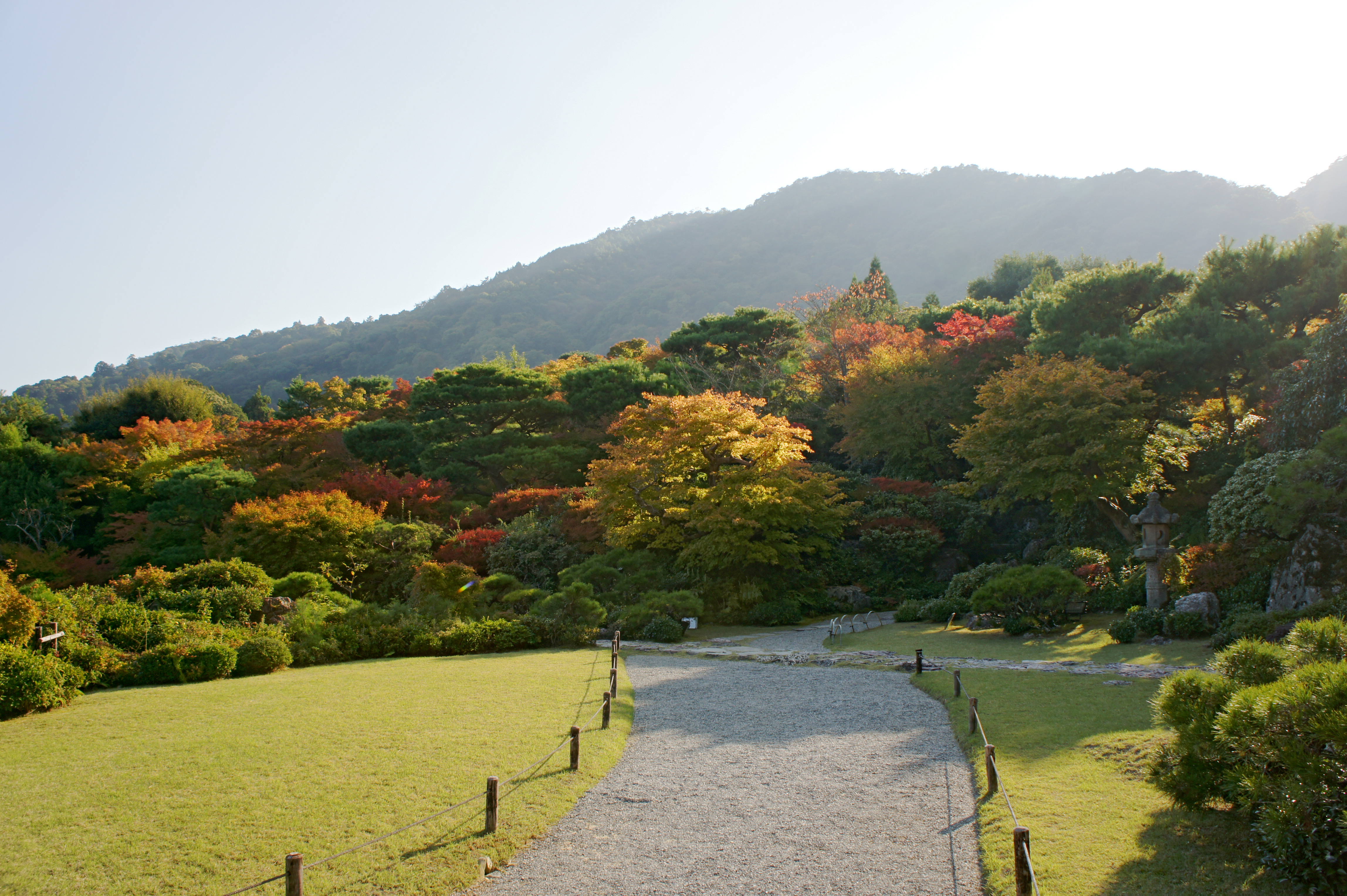 Ōkōchi Sansō in Ukyō-ku, Kyoto, Kyoto prefecture, Japan